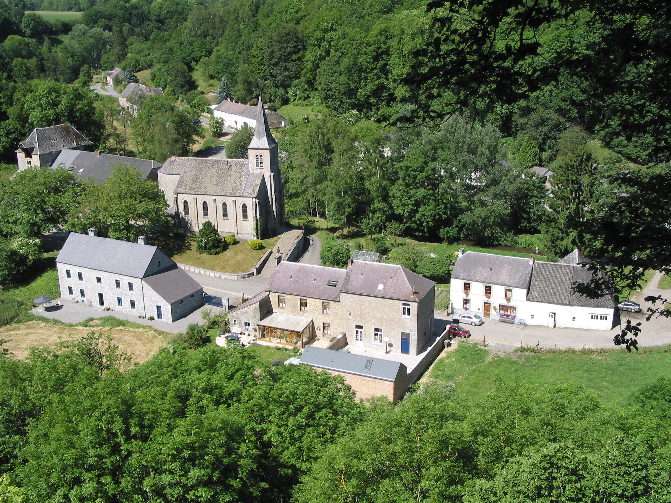 Lompret (Belgium), village included in the list of exceptional heritage of Wallonia (22 October 1982 - Bois Franc site).